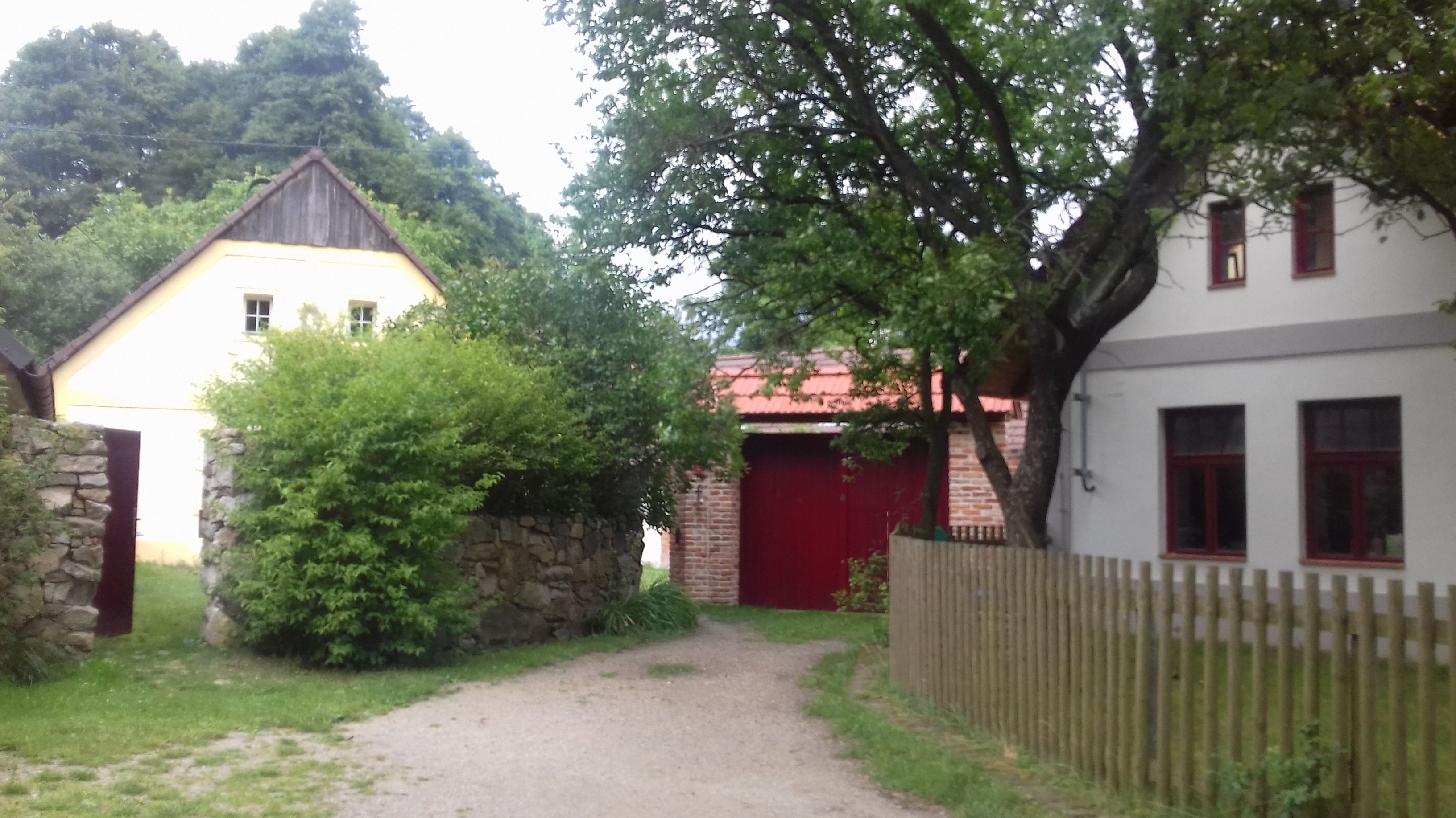 Buchov, neighborhood of Postupice, Benešov District